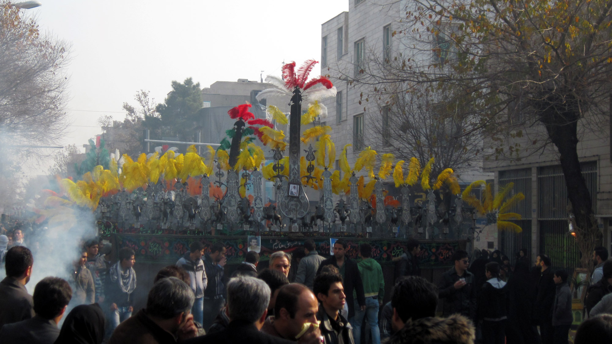 Ashoora 2011 Tehran,Iran